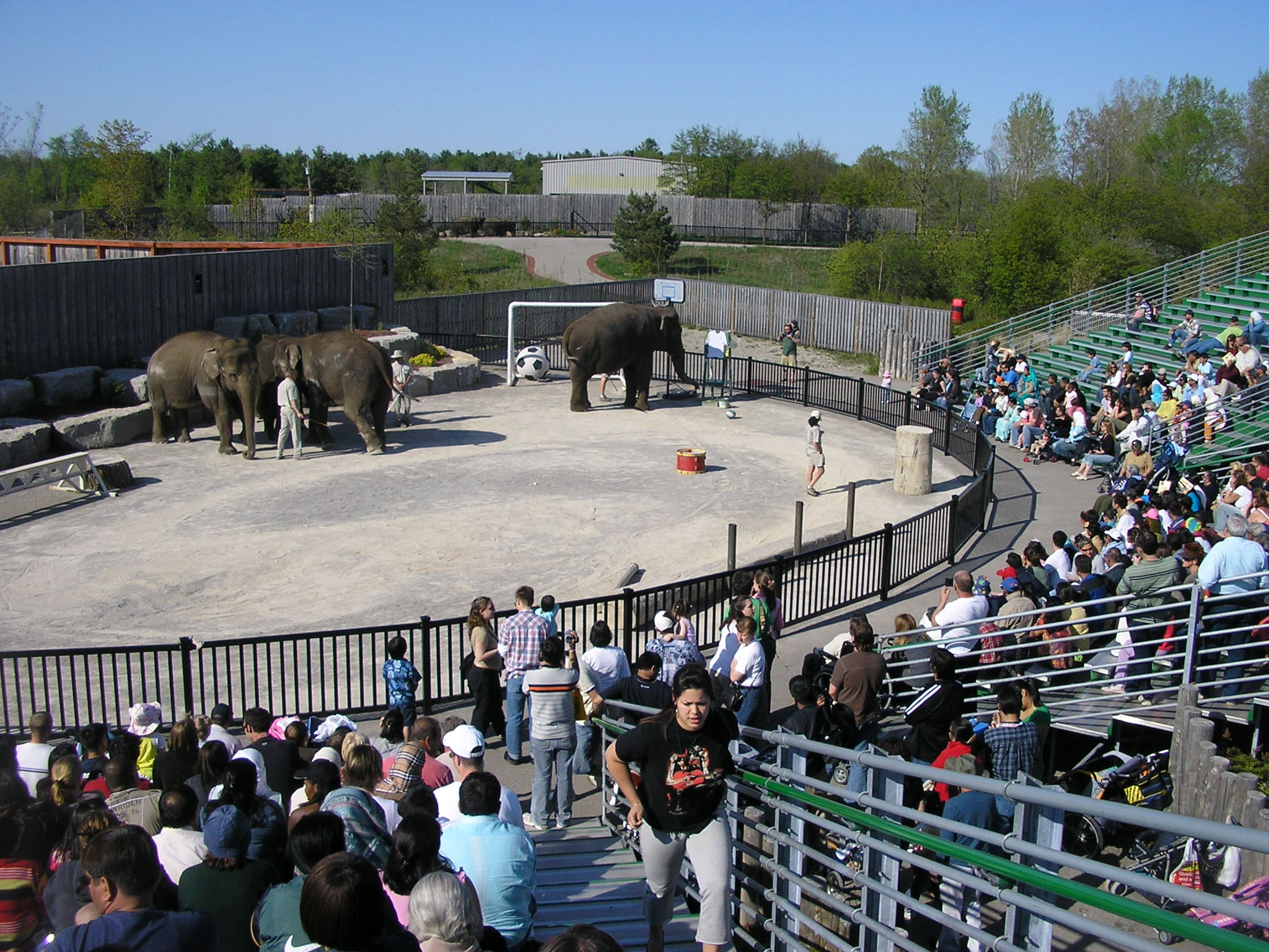 Staff demonstrating skills of elephants.